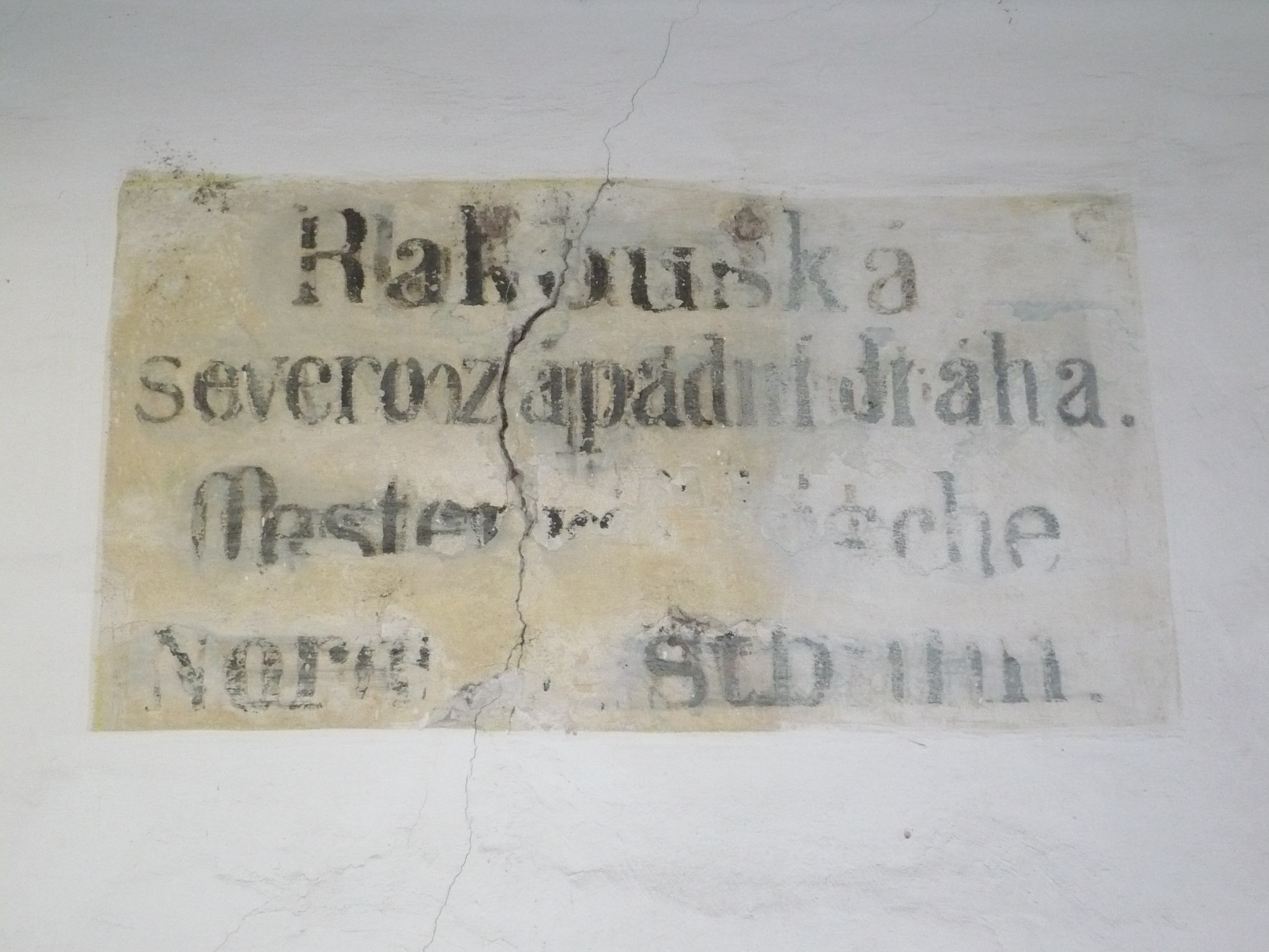 Railway station Praha Vysočany, a preserved sign reminds the waiting passengers the line was built by Austrian Northwestern Railway (Oesterreichische Nordwestbahn)